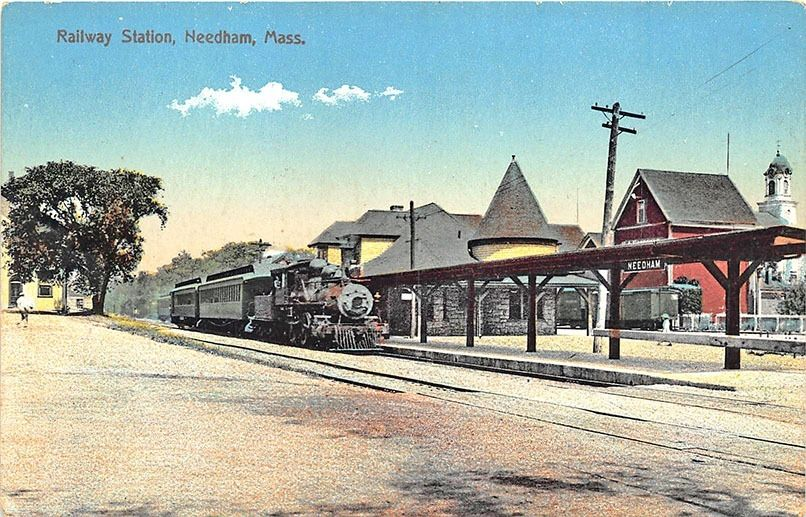 Early divided back postcard of the Needham station